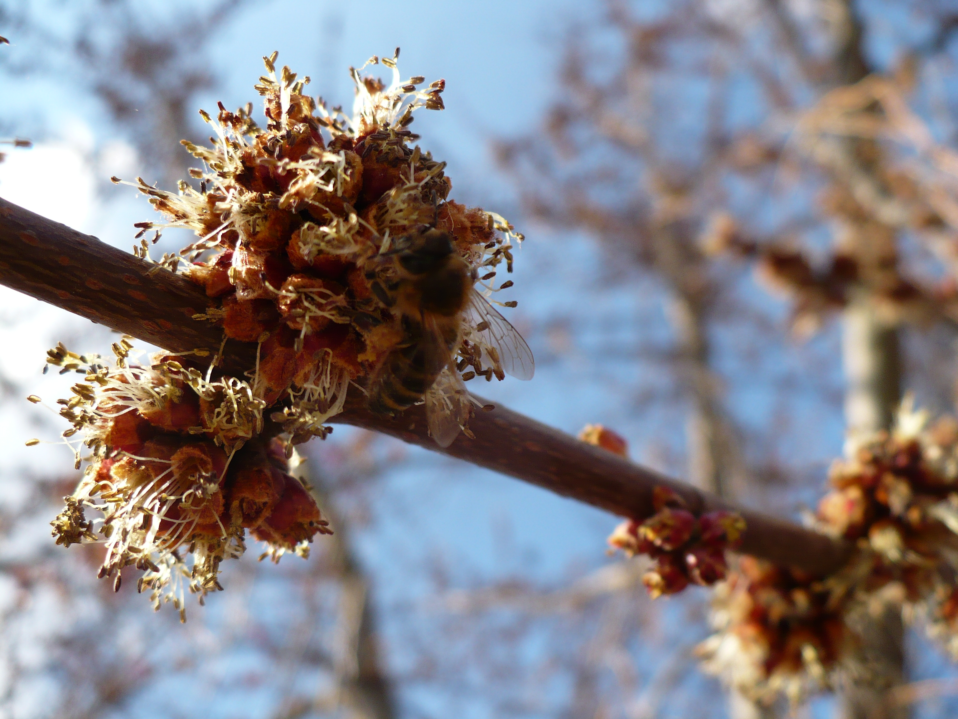 Inflorescence of Acer rubrum with a pollinator